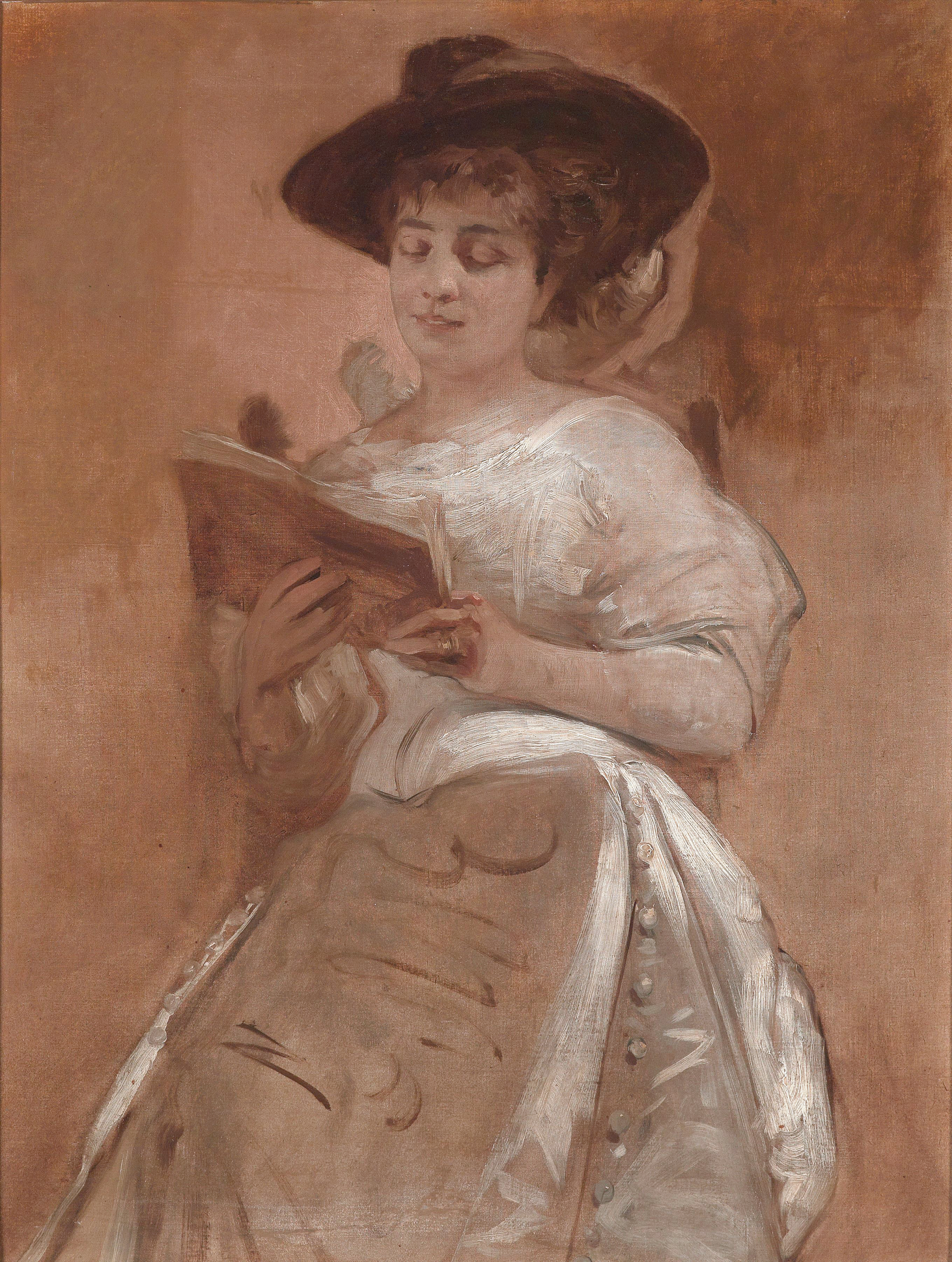 Cilli Jettel - Mailer, wife of Eugen Jettel oil on canvas 61 x 80,5 cm